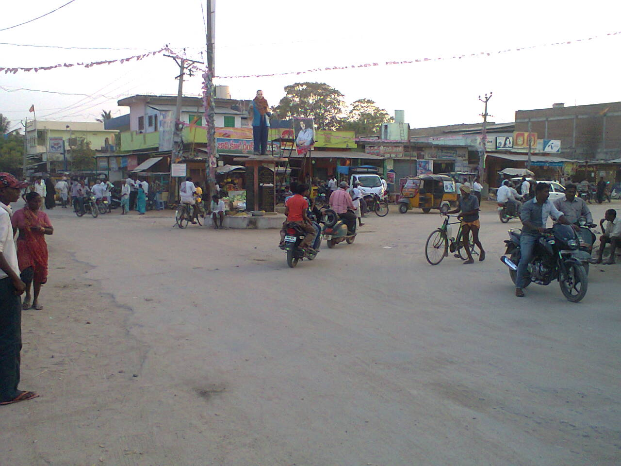 అంబేడ్కర్ చౌరస్తా